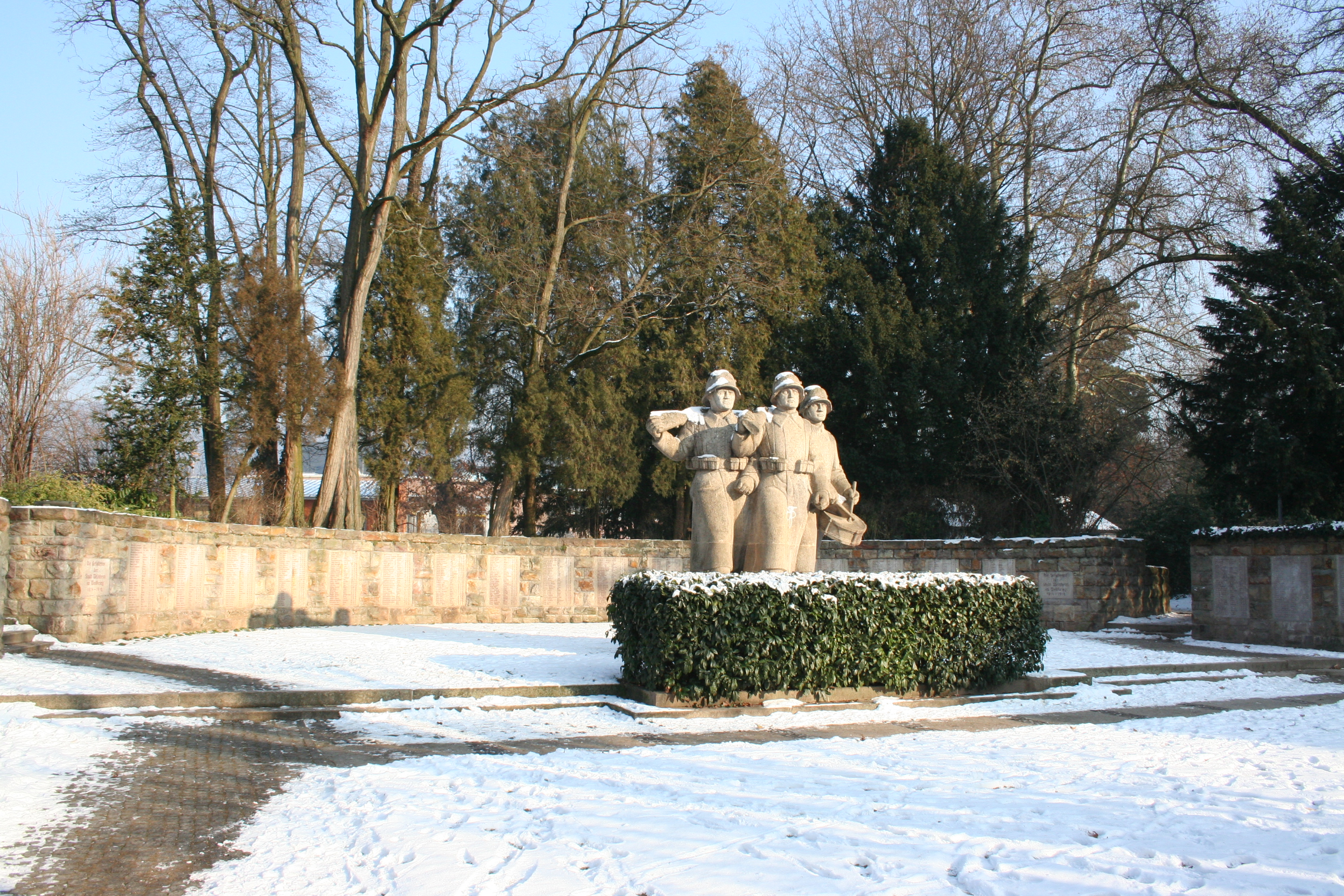 Memorial for the soldiers died in World War I and II, Weinheim, Germany